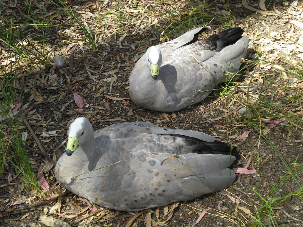 Two Cape Barren Geese at Cleland Wildlife Park, Australia.